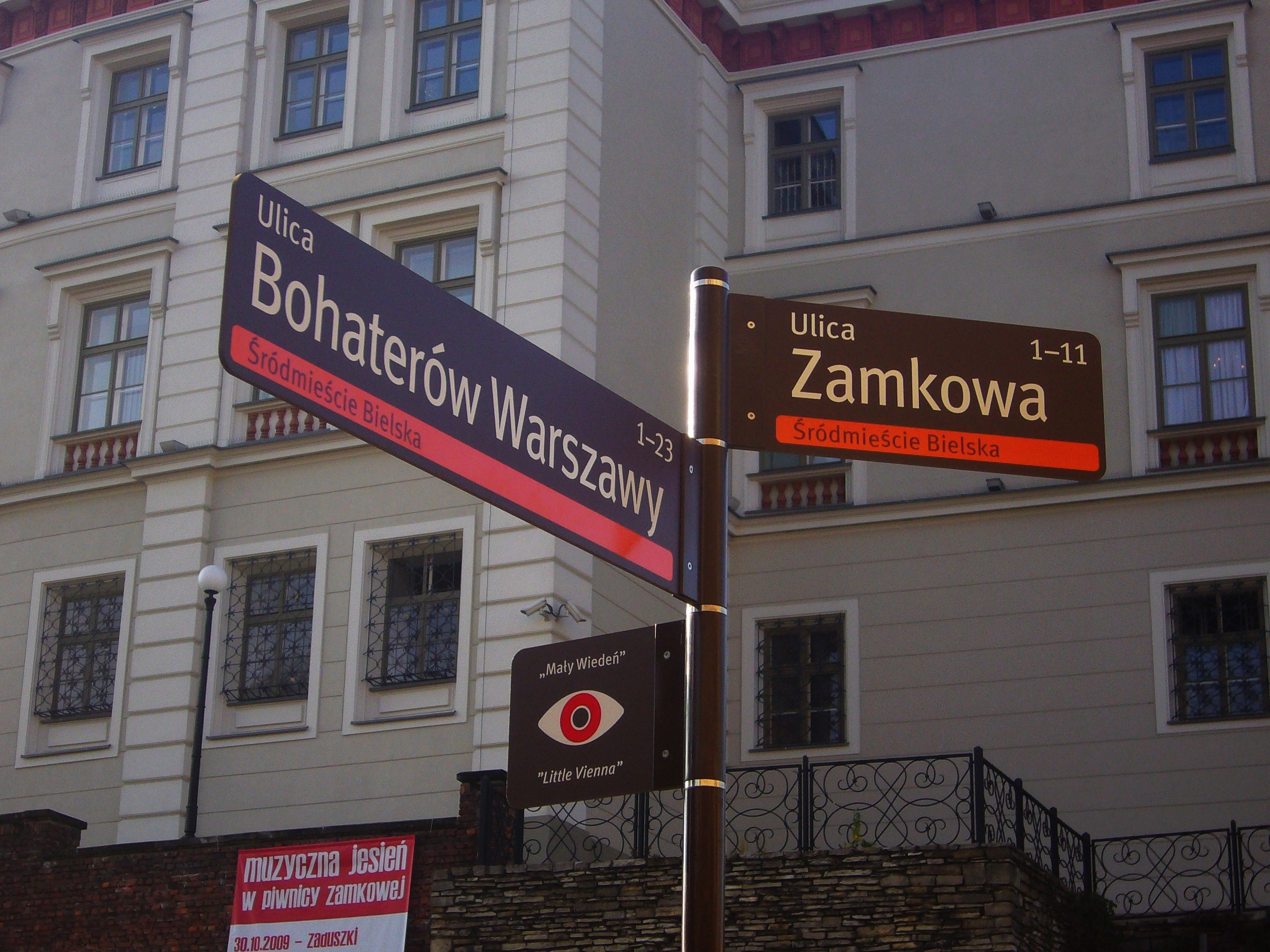 Typical street signs at a intersection in Bielsko-Biała (Bohaterów Warszawy Str. / Zamkowa Str.).